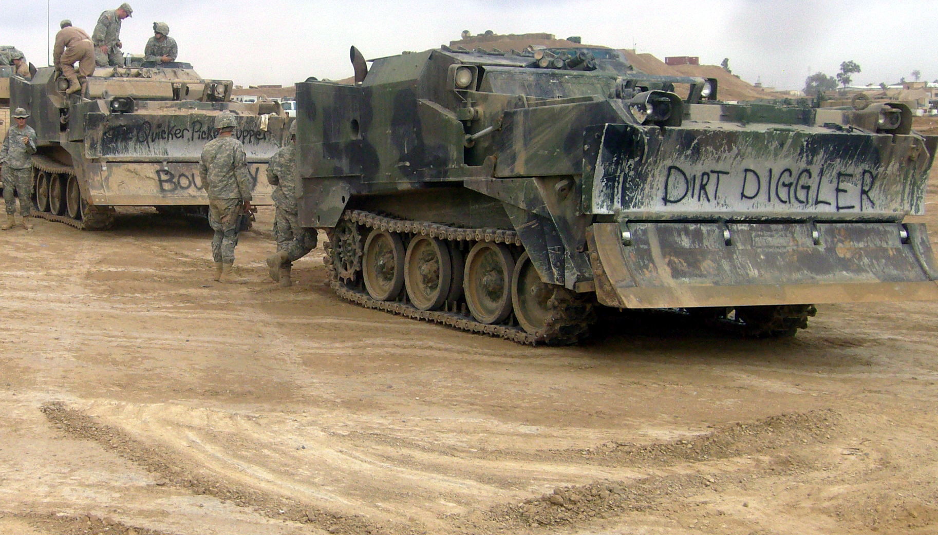 taken by Andy Patton 28mar07